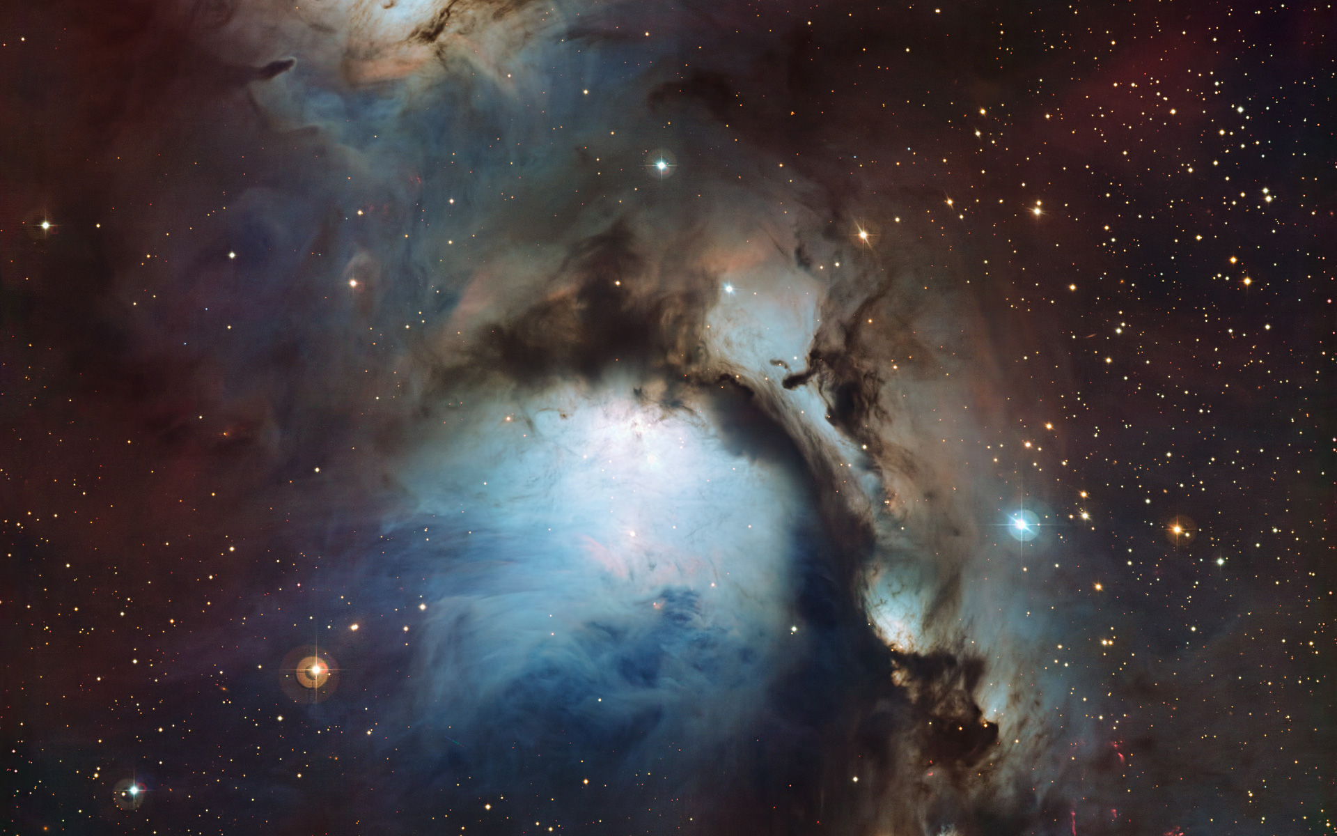 This new image of the reflection nebula Messier 78 was captured using the Wide Field Imager camera on the MPG/ESO 2.2-metre telescope at the La Silla Observatory, Chile. This colour picture was created from many monochrome exposures taken through blue, yellow/green and red filters, supplemented by exposures through a filter that isolates light from glowing hydrogen gas. The total exposure times were 9, 9, 17.5 and 15.5 minutes per filter, respectively.